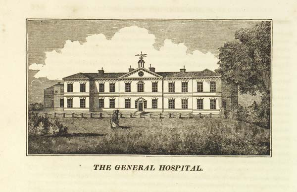 John Blackner's History of Nottingham's illustration from 1815 of Nottingham General Hospital